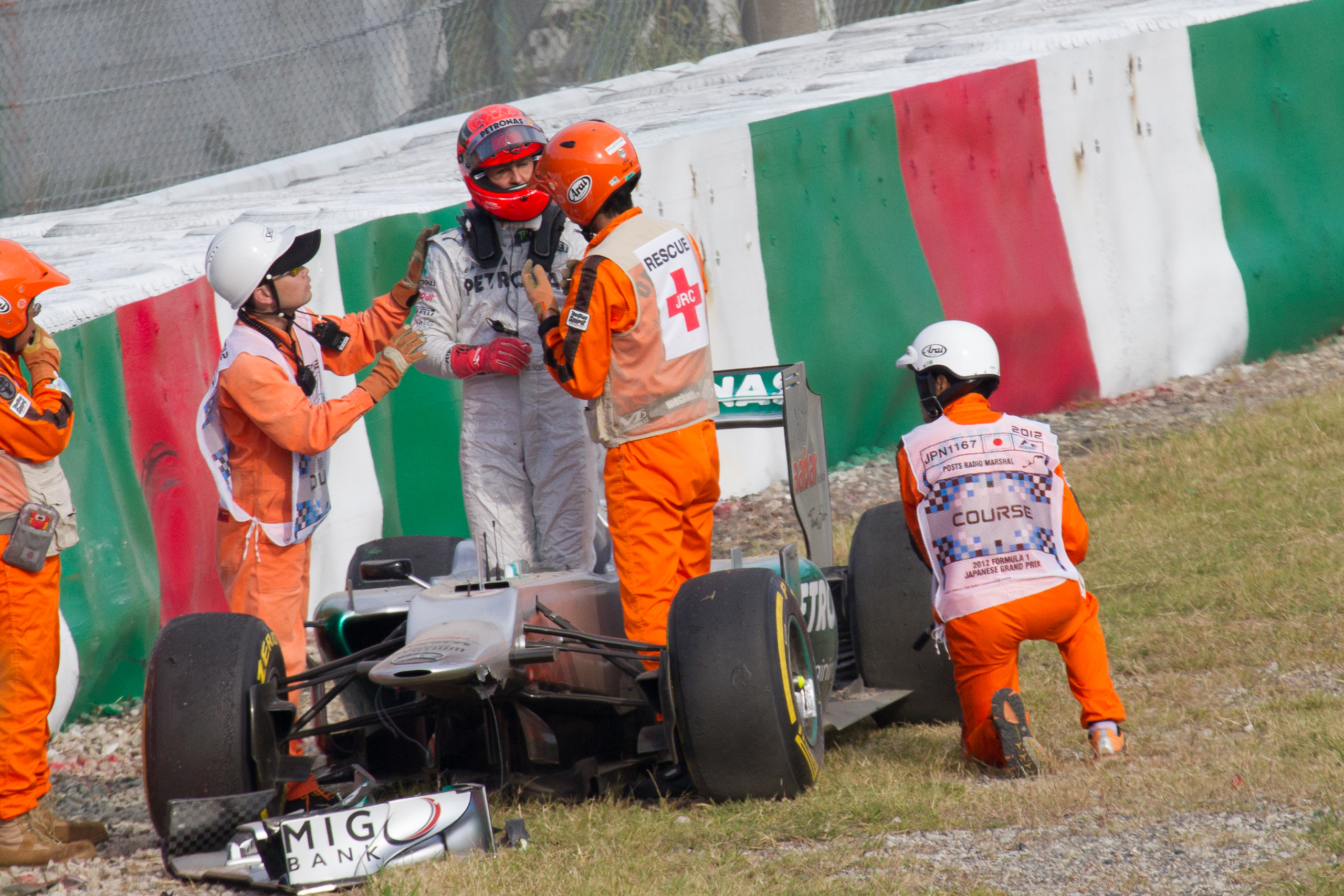 Formula One 2012 Rd.15 Japanese GP: Michael Schumacher (Mercedes GP) crashed at Spoon Curve in Free Practice 2.